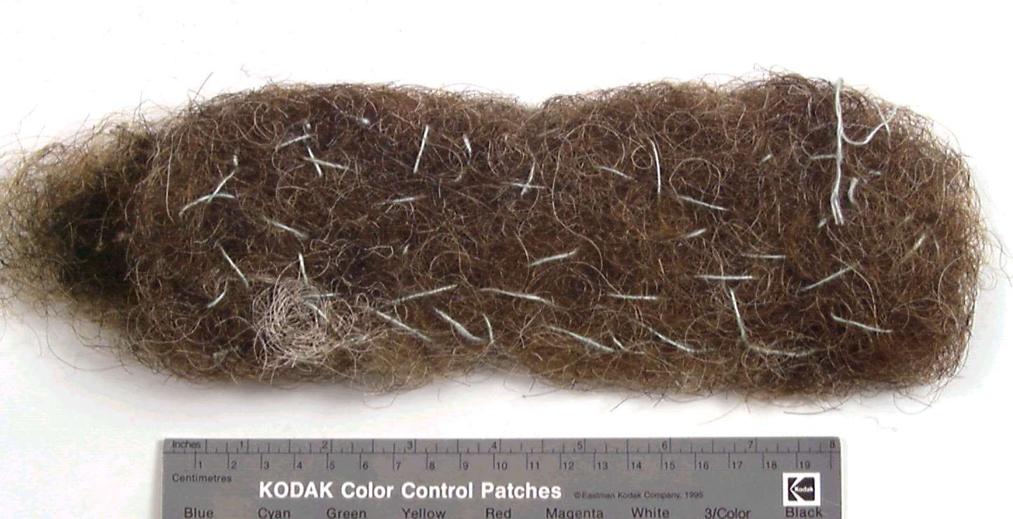 Insole made from cowhair, from the tip of the cow's tail